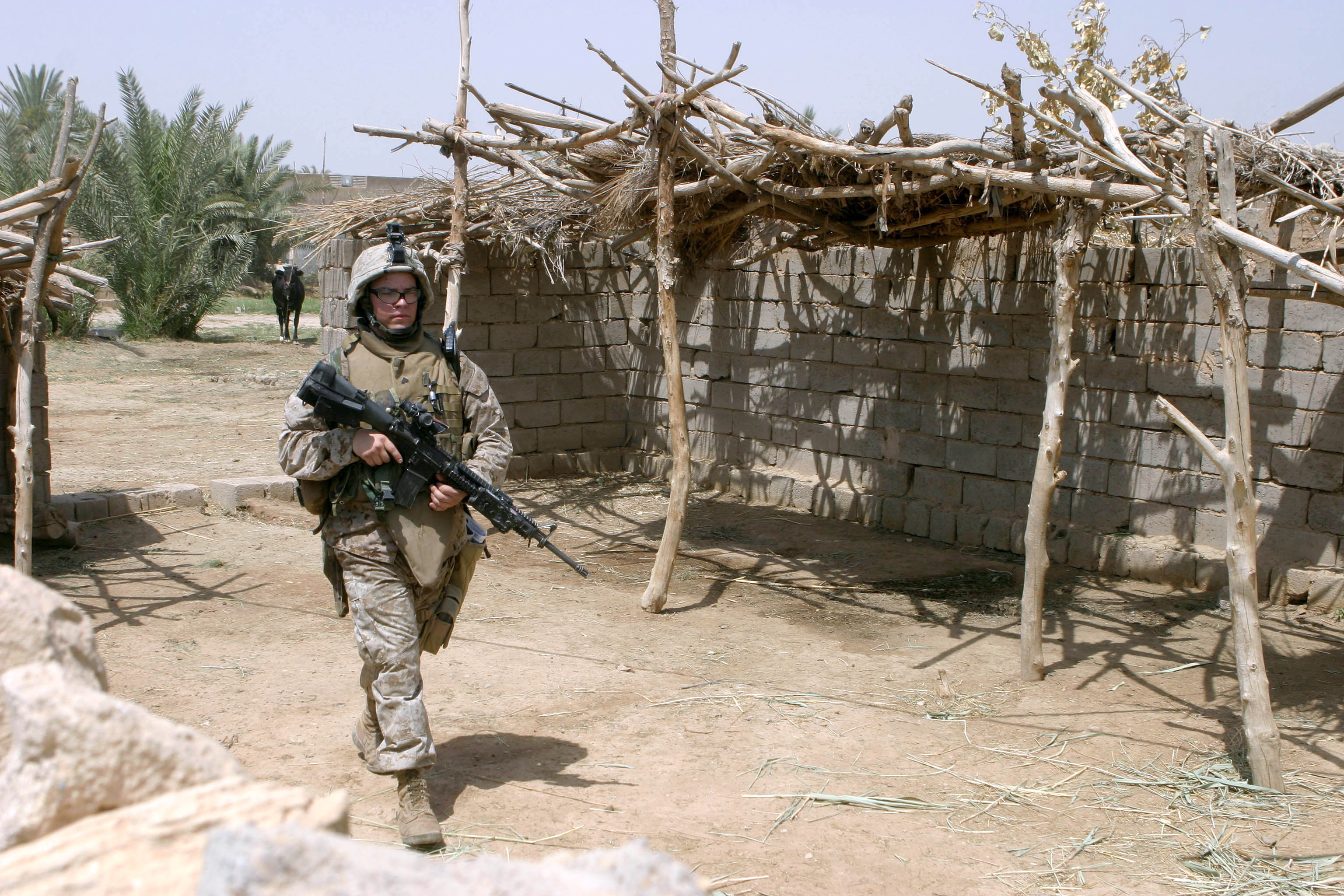 US military patrolling through Asragiyah, Iraq Original description: 050602-M-3301A-020 Fallujah, Iraq (June 2, 2005) - Cpl. Aaron Barney searches a small area village while patrolling through Asragiyah, Iraq looking for weapons, caches, and insurgency. This patrol is a counter-insurgency operation in support of Iraqi security forces that are designed to isolate and neutralize opposition. Efforts by this Marine and many others will assist in the continued development of a secure government that enables Iraqi self-reliance and self-governance.